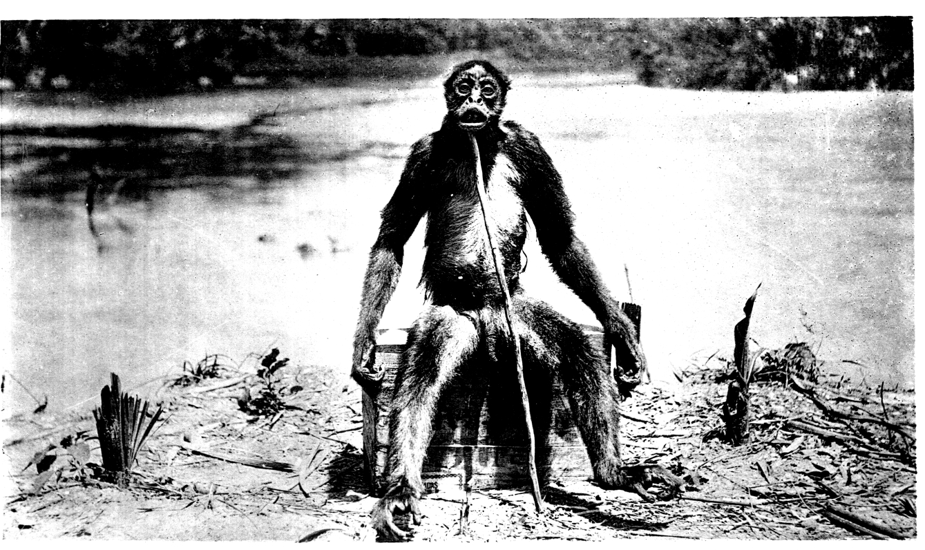 "Amer-anthopoides Loysi (Montandon)